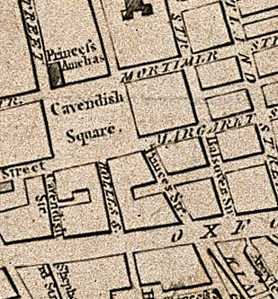 Part of a map of the City of Westminster and the immediate environs. Engraving, 1764. Iconographic Collections Keywords: MAP; TOPOGRAPHY; city of westminster; Maps; London; ic